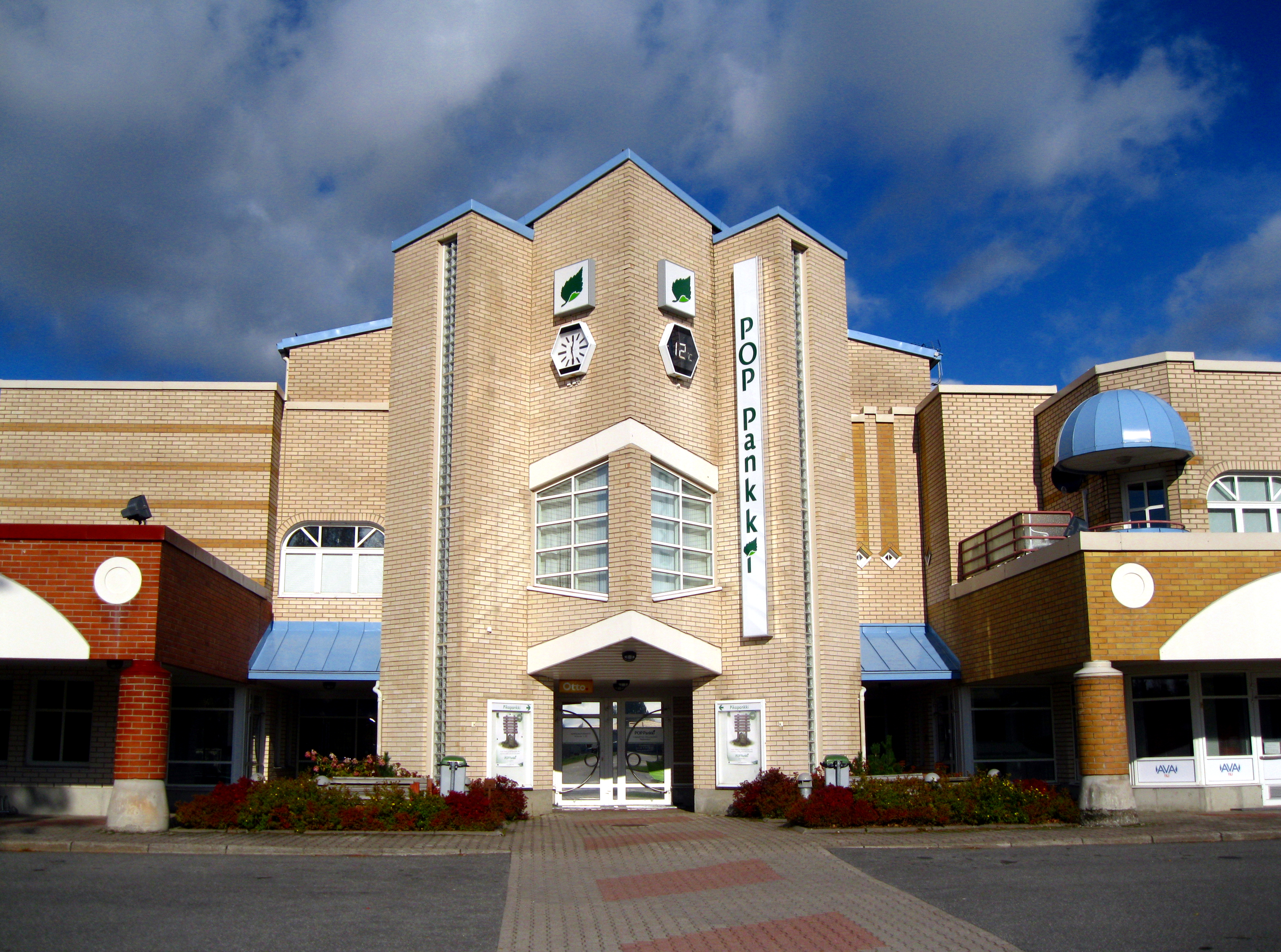 Bank in Lappajärvi, Finland.